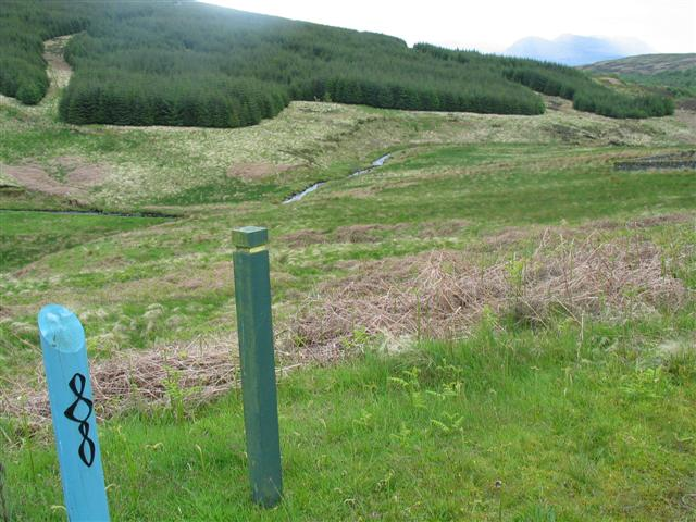 Kintyre Way Walk. Strath nan Coileach.